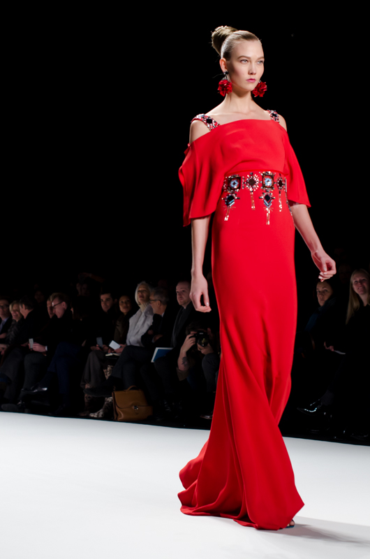 Karlie Kloss walks the runway at the Carolina Herrera Fall/Winter 2014 show at New York Fashion Week, February 2014.